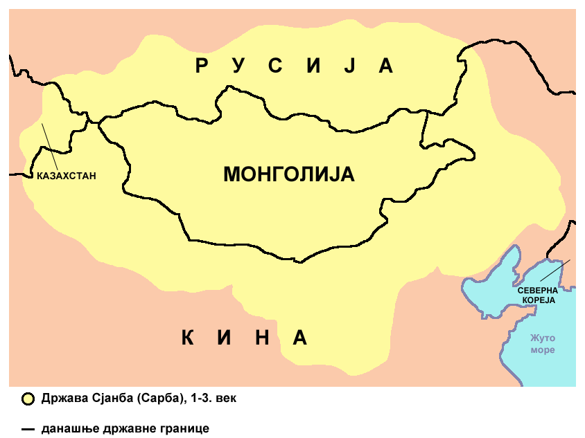 Map of the Xianbei (Syanbi, Sarbi) state (1st-3rd century).